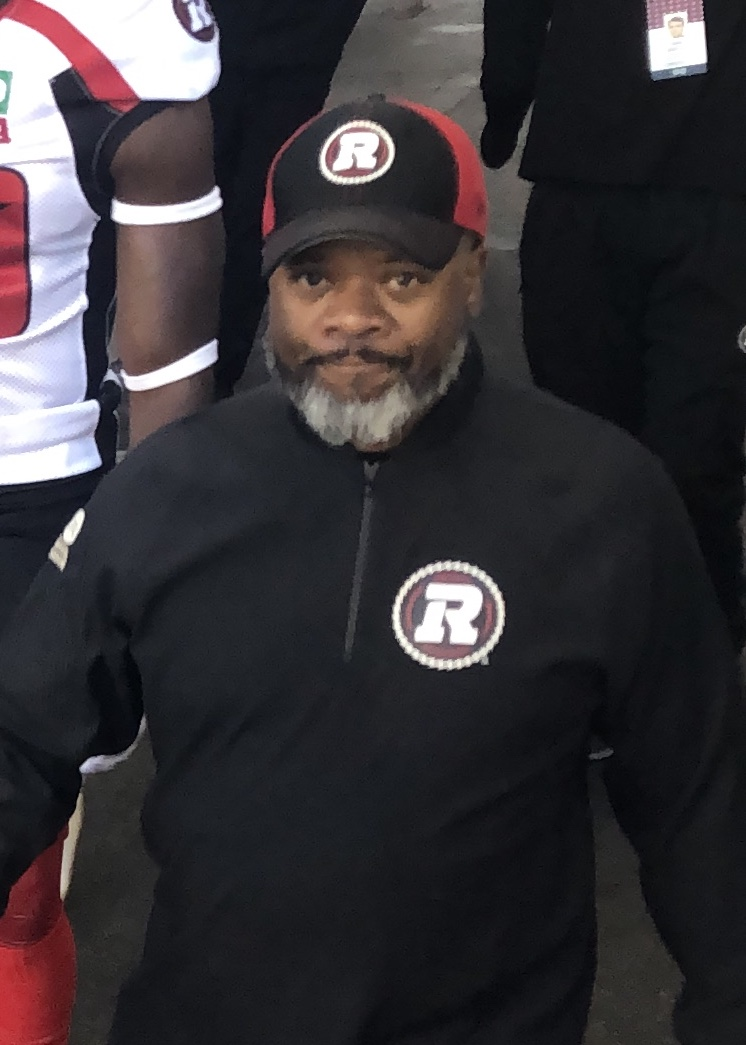 Bobby Dyce, Special Teams Coordinator for the Ottawa Redblacks.